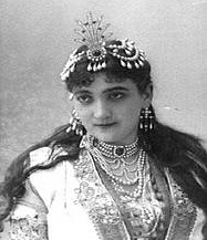 Emma Calvé as Lalla-Roukh in the opera Lalla-Roukh composed by Félicien-César David. Performed at the Opéra-Comique in Paris, 1885